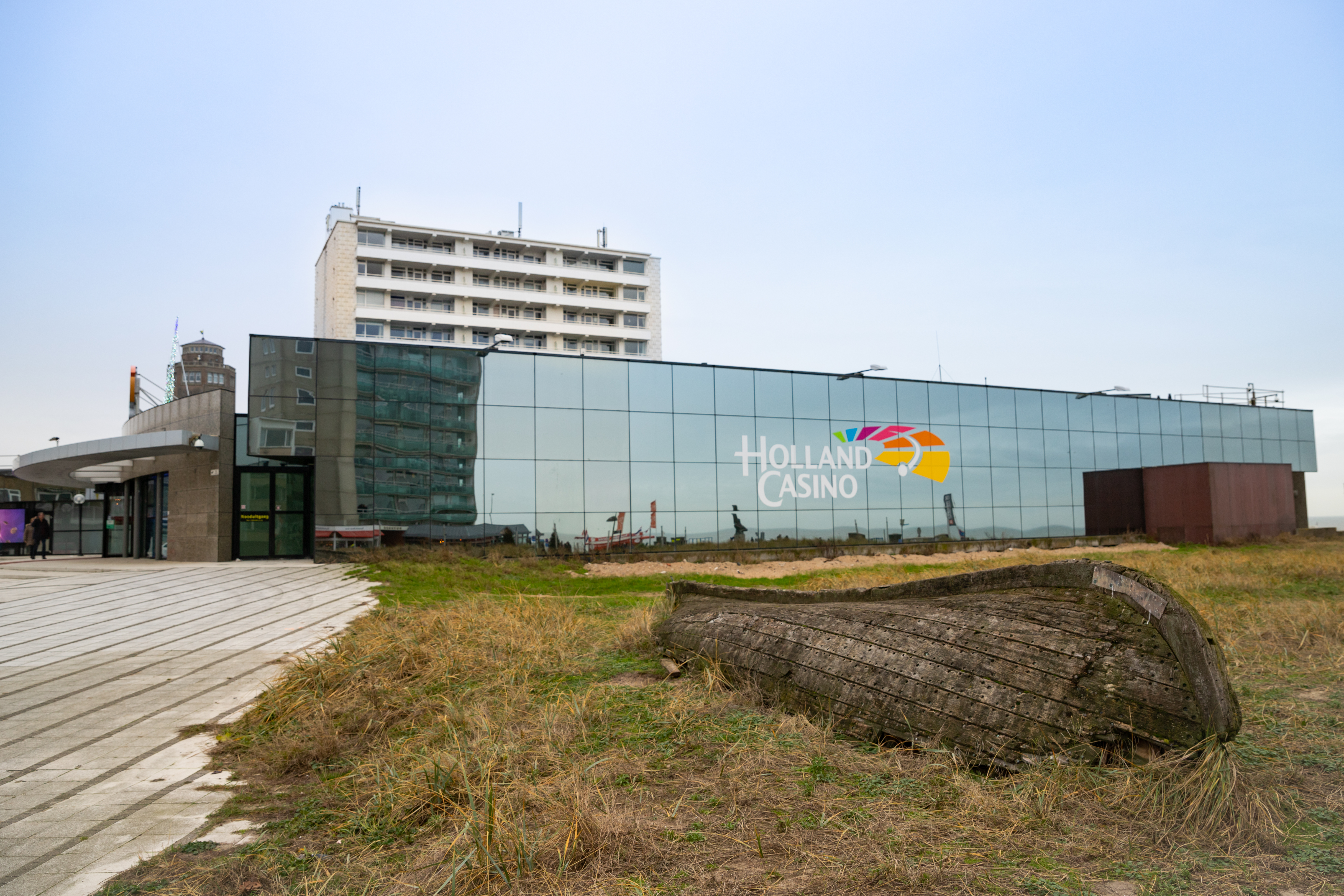 Holland Casino in Zandvoort in the Netherlands